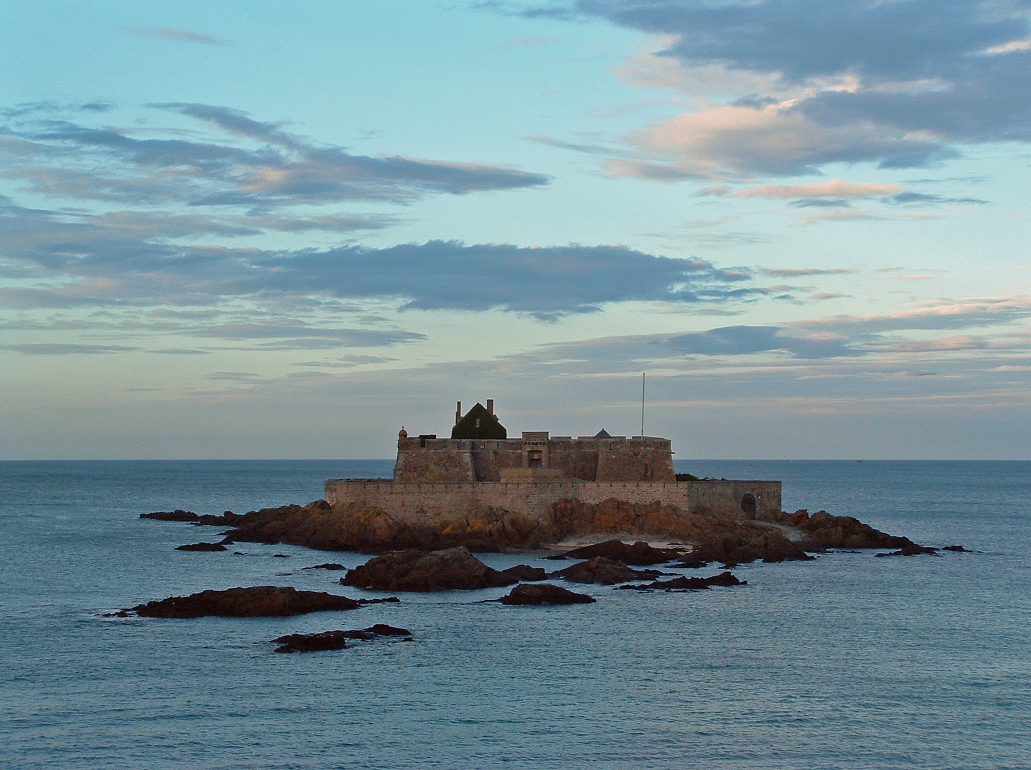 Fort National par marée haute, Saint-MaloFort National at high tide, Saint Malo